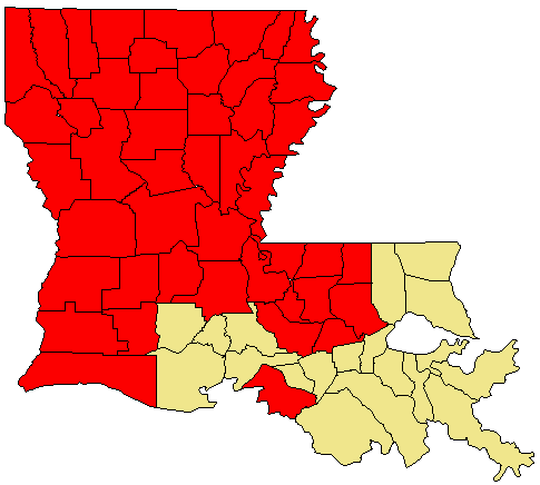 Louisiana Lt. Gubernatorial election, 2011 parish map